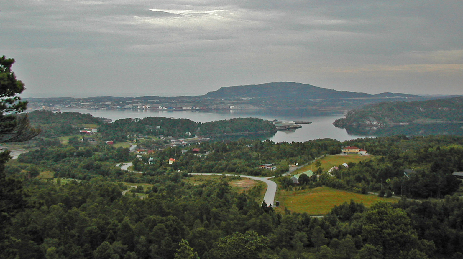 Bolga (in Kristiansund): Øverbolga and Husøya. In the background you can see Nordlandet and Kvernberget.